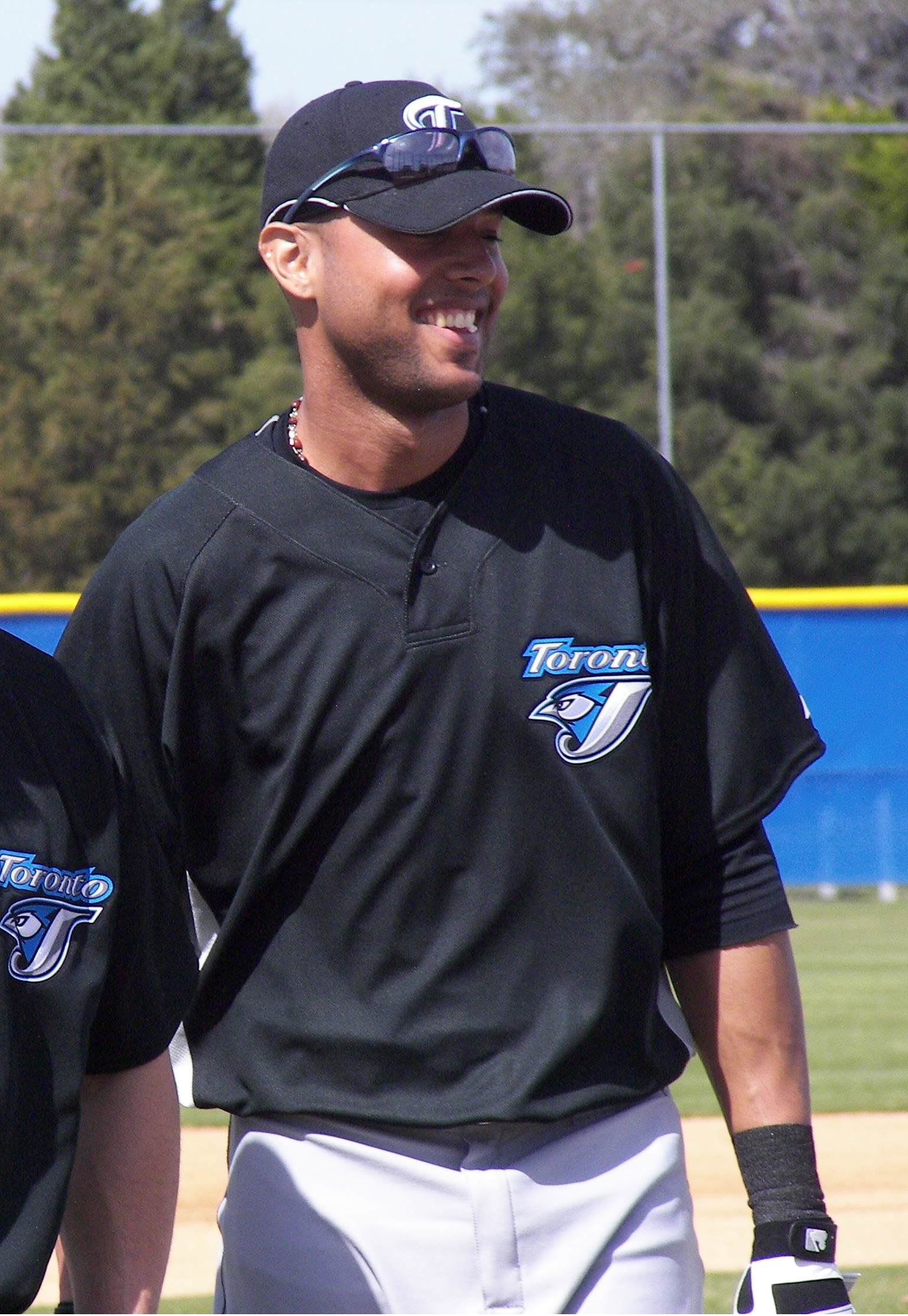 Toronto Blue Jays outfielder Alex Ríos during a spring training workout at the Blue Jays' spring training complex in Dunedin, Florida.